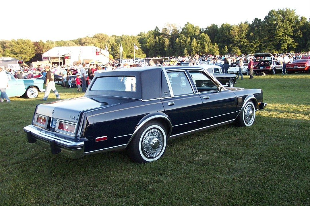 Introduced Mid 1980 as a promotional vehicle, only 651 were produced. This package would return in 1982 as the next generation Chrysler Newyorker.